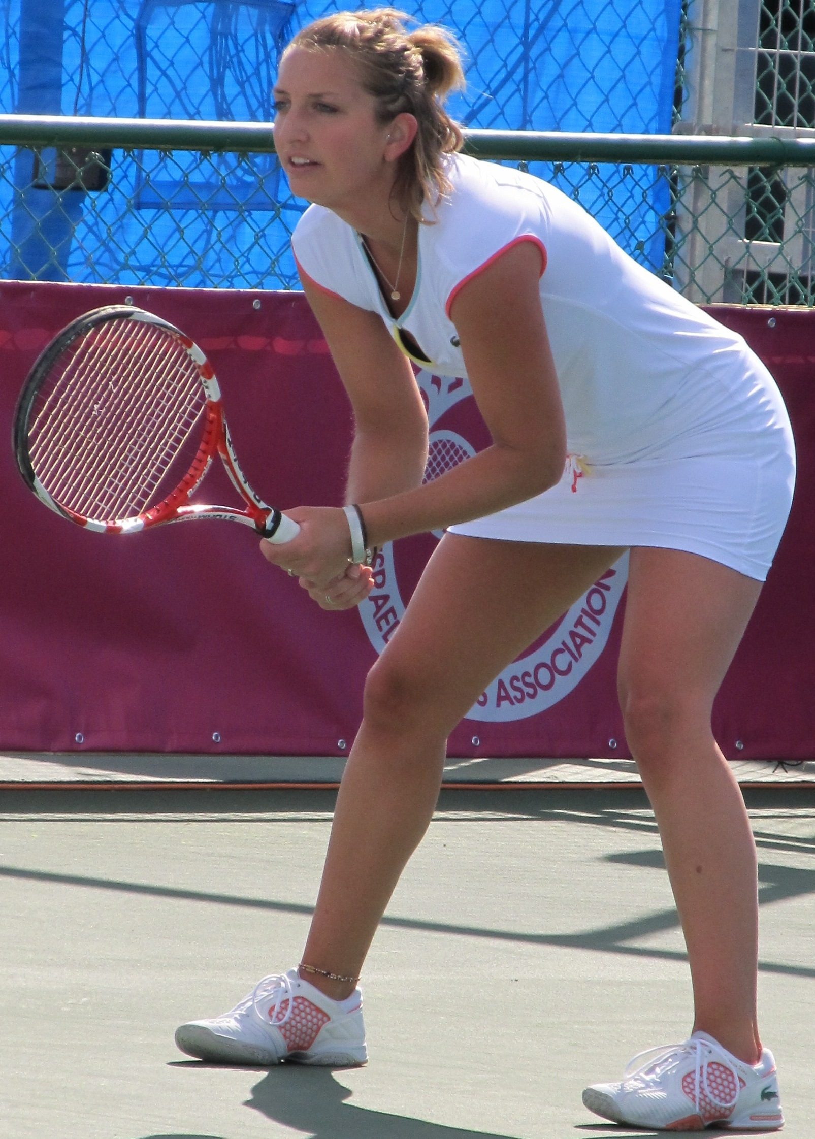 The tennis player Timea Bacsinszky of Switzerland during her match against Heather Watson of Great Britain in the 1st day of Fed Cup Group I 2011 Europe/ Africa in Eilat, Israel